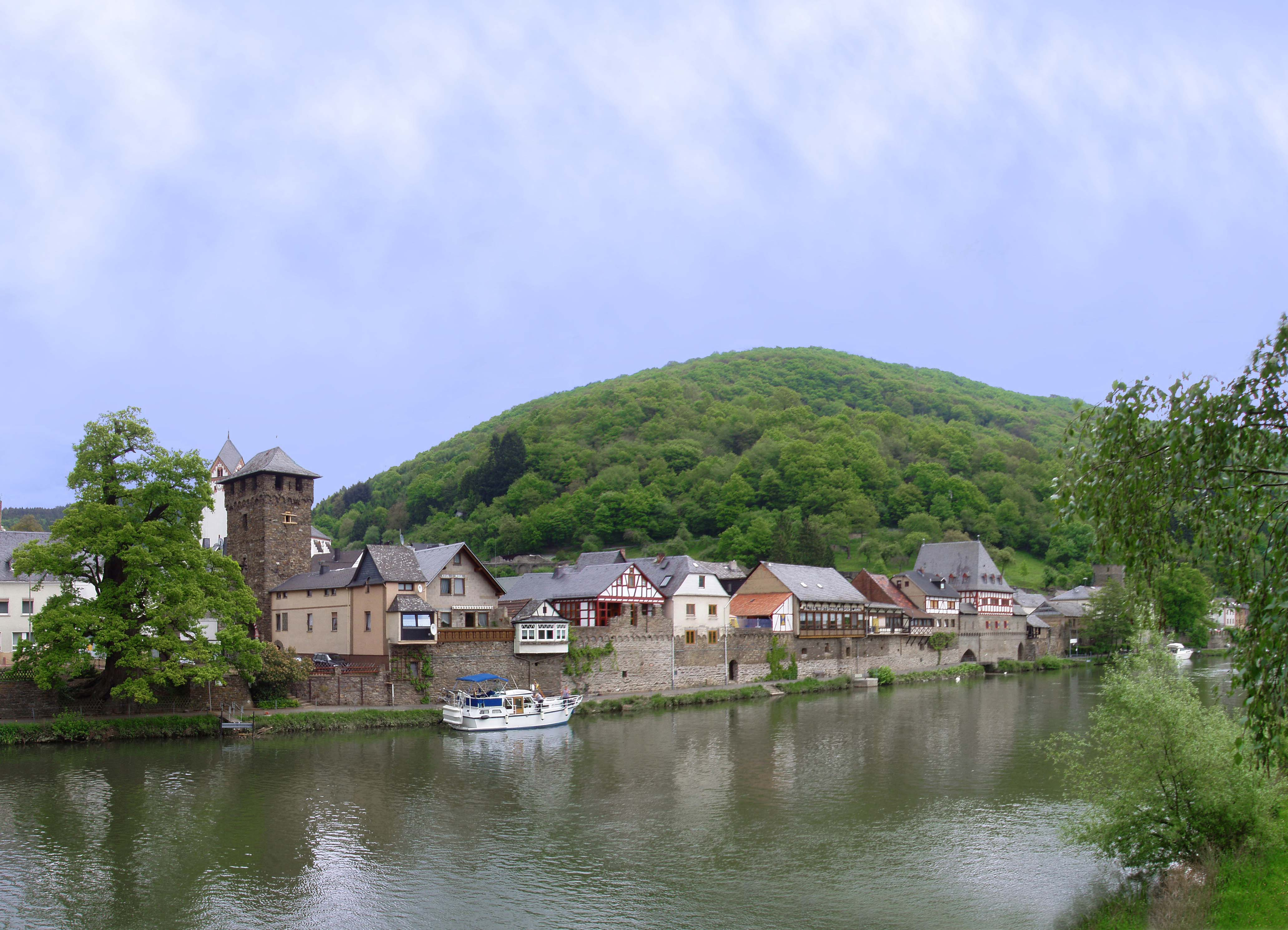 View from the City of Dausenau on the River Lahn (Germany).